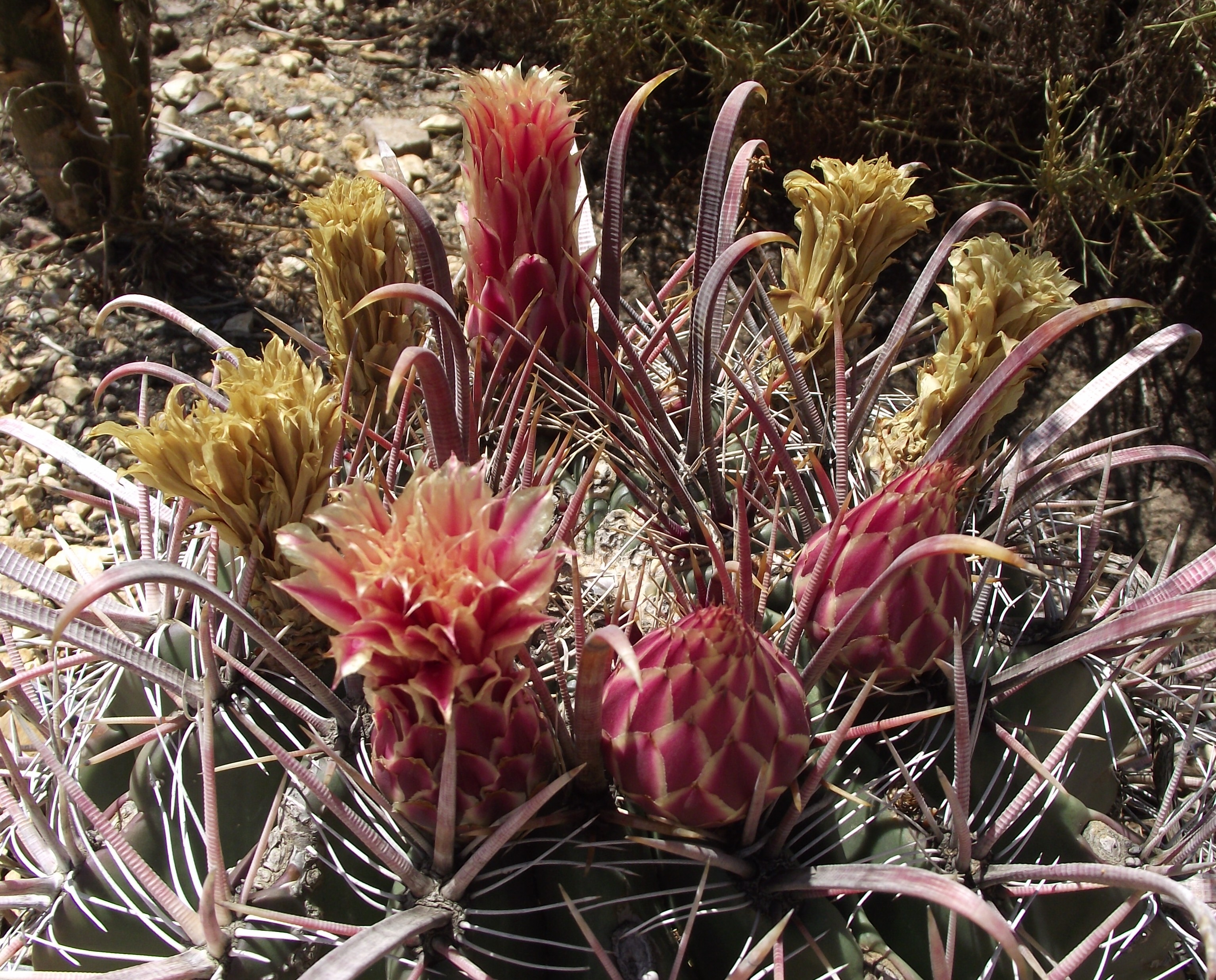 Ferocactus gracilis at the San Diego Botanic Garden, Encinitas, California, USA. Identified by sign.